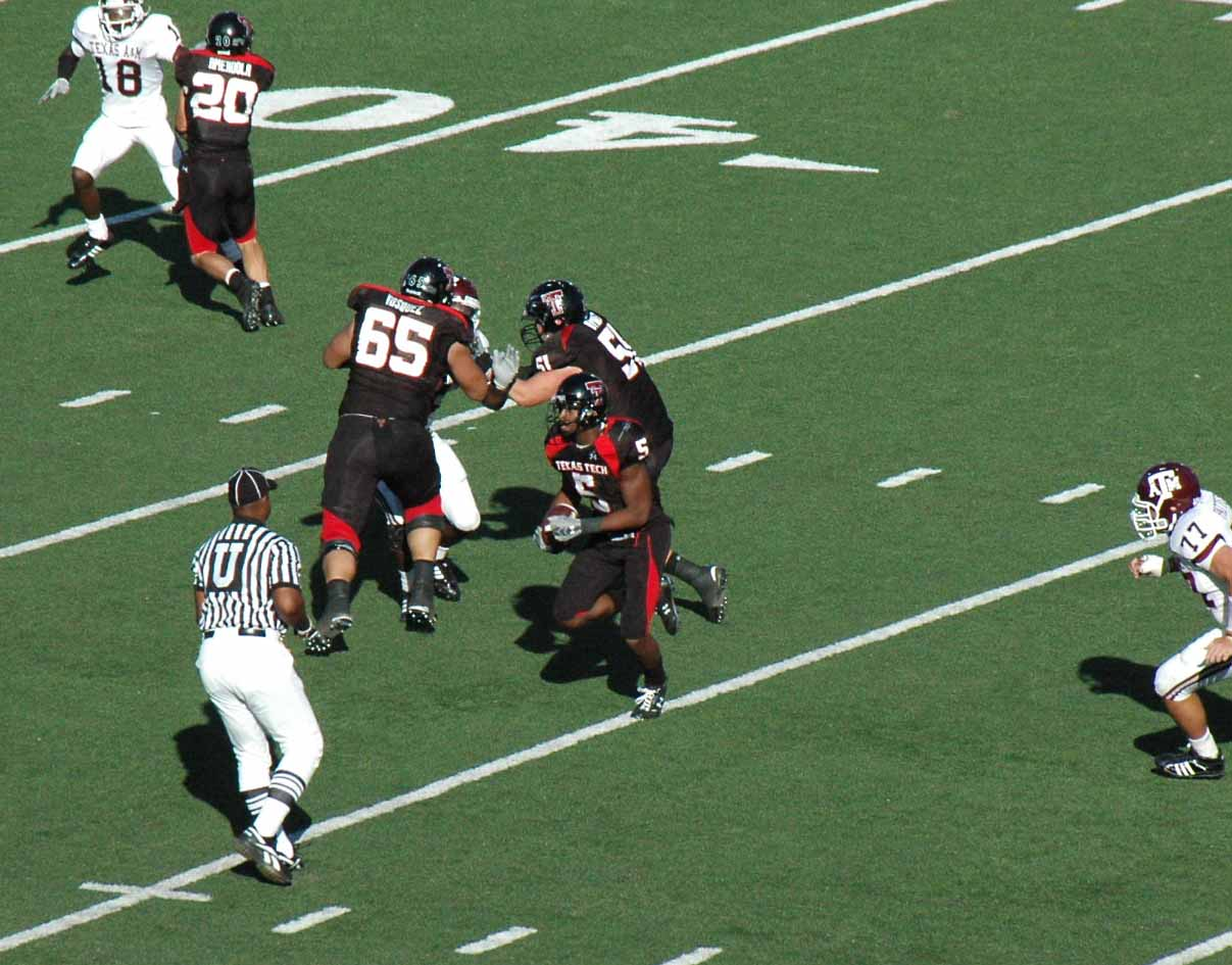 During Texas Tech's 35-7 victory over Texas A&M in 2007, Crabtree had 170 receiving yards on eight receptions.